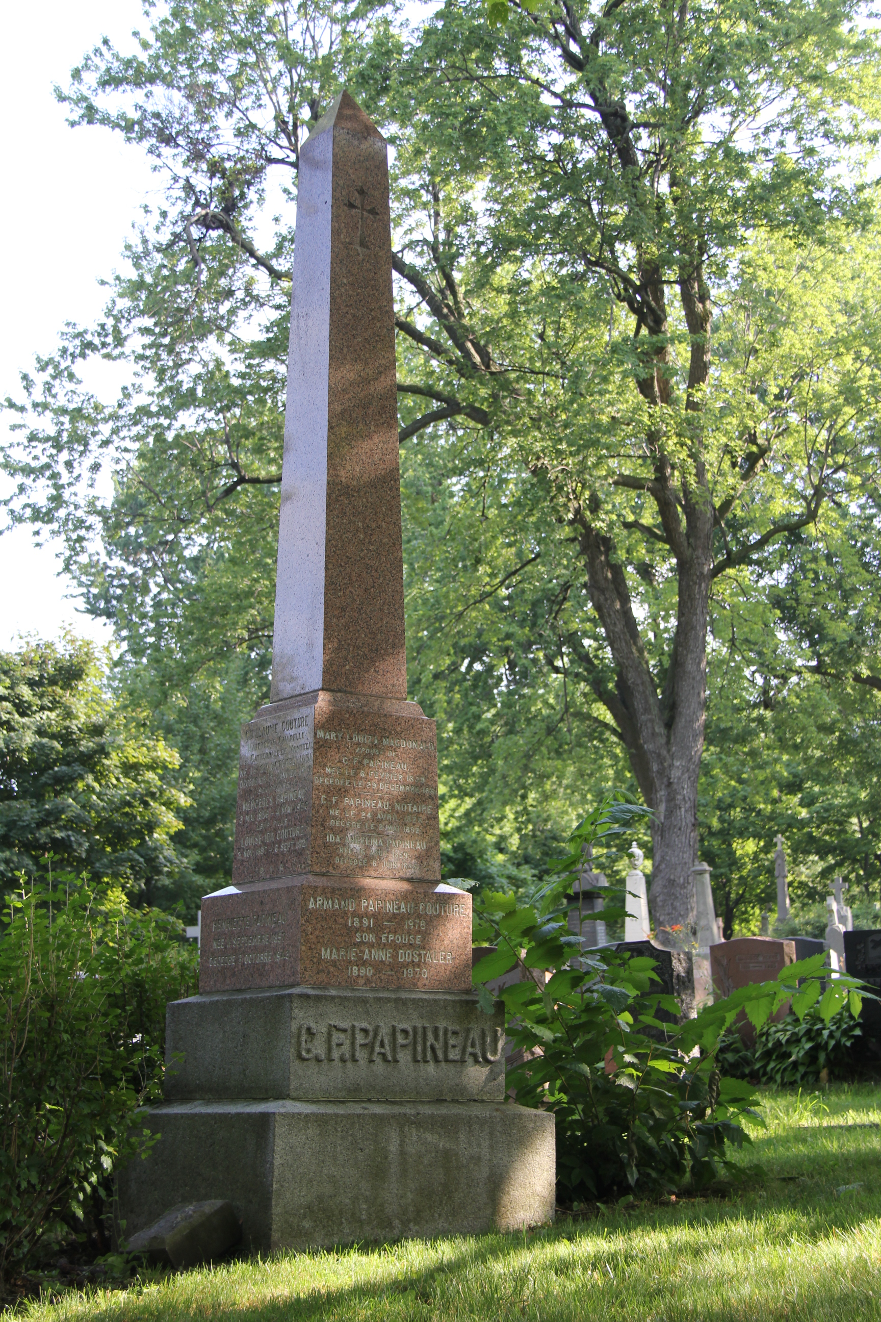 Guillaume Couture & Jean Papineau-Couture’s tombstone, Notre-Dame-des-Neiges Cemetery, Montreal.